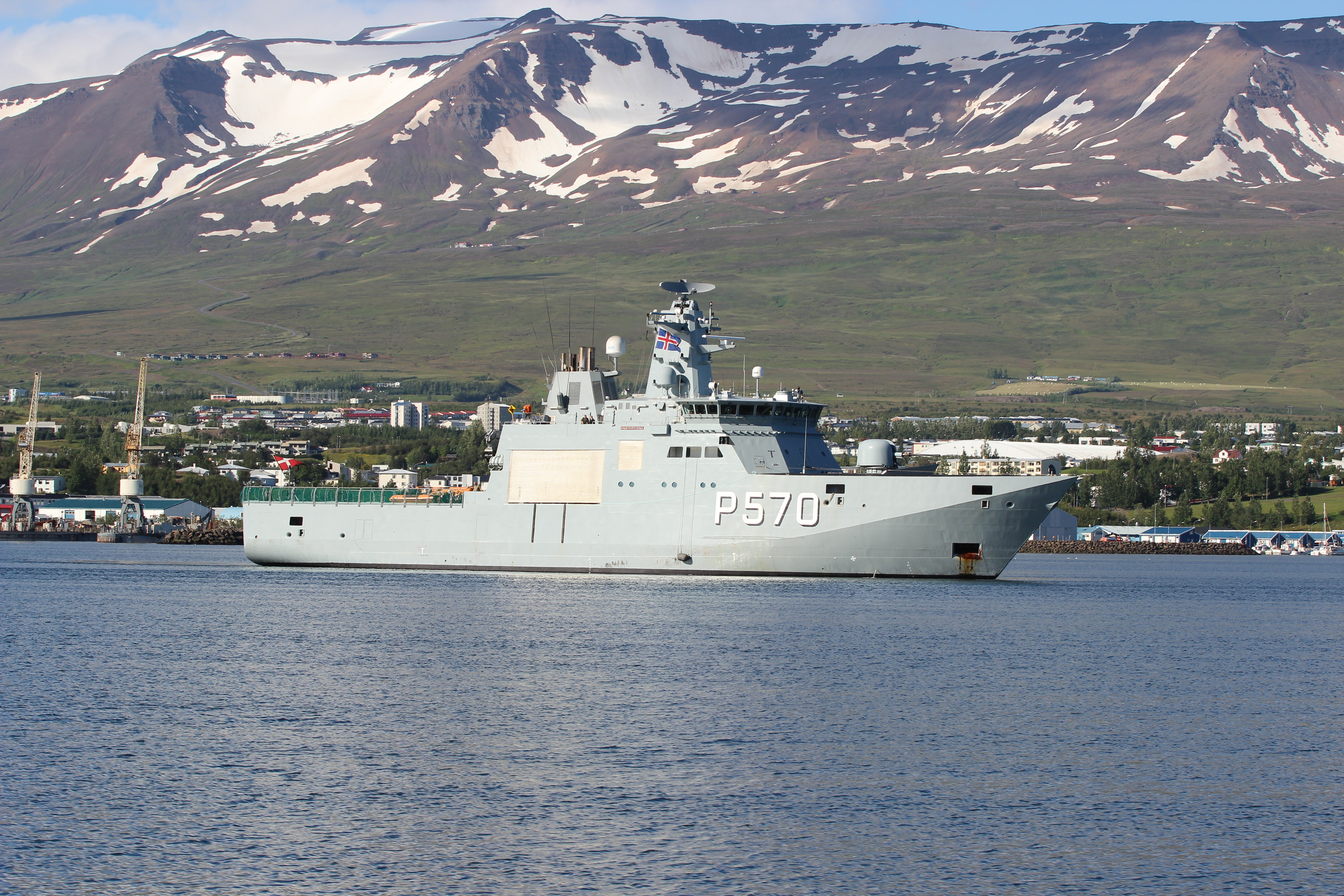 P570 Knud Rasmussen outside Akureyri Harbour in Iceland.